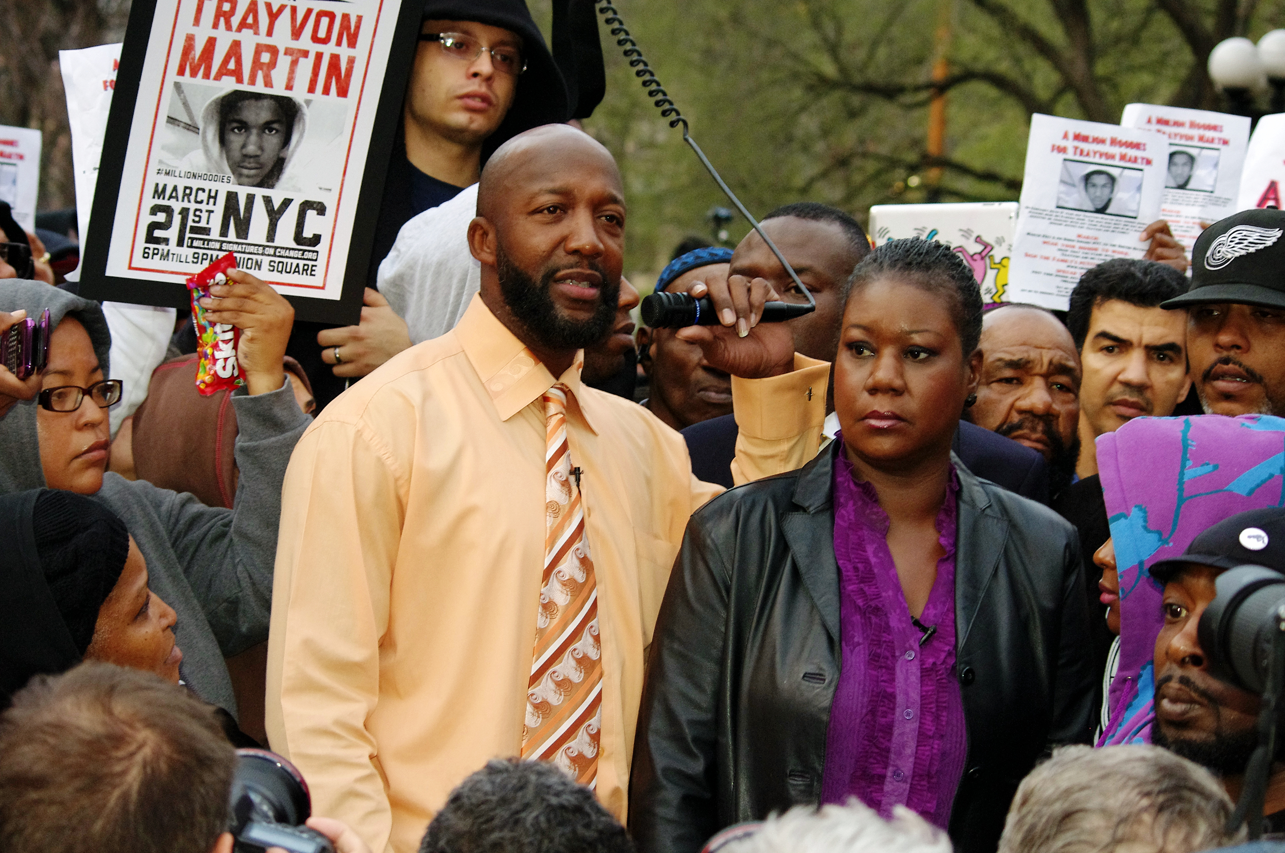 Trayvon Martin's father Tracy Martin and his mother Sabrina Fulton at the Union Square protest against Trayvon's shooting death.